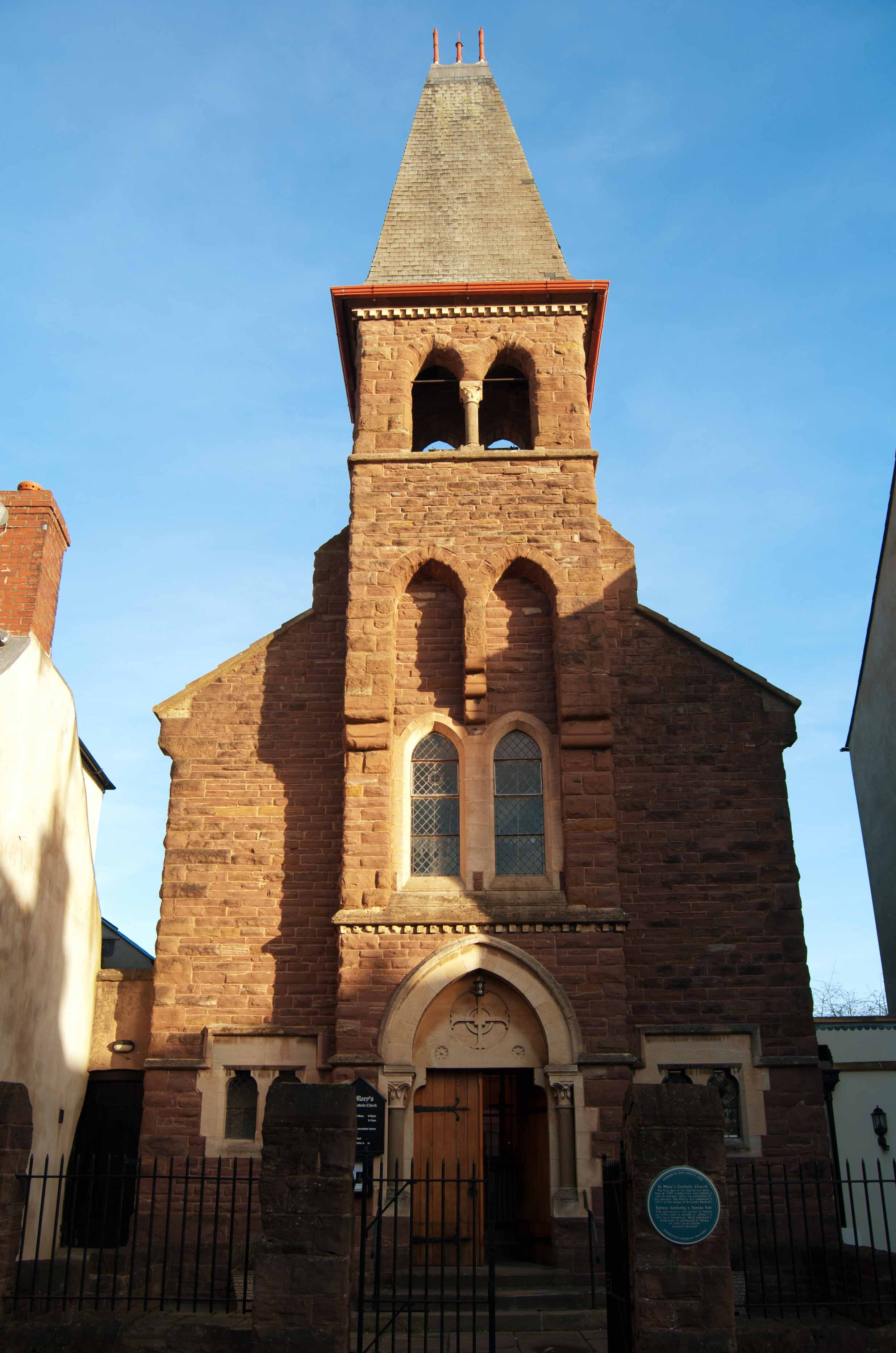 St Mary's Church, St Marys St, Monmouth. 2012